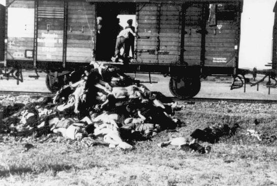 Along the route from Iasi to either Calarasi or Podul IIoaei, Romanians remove corpses from a train carrying Jews deported from Iasi following a pogrom. Romania, late June or early July 1941.